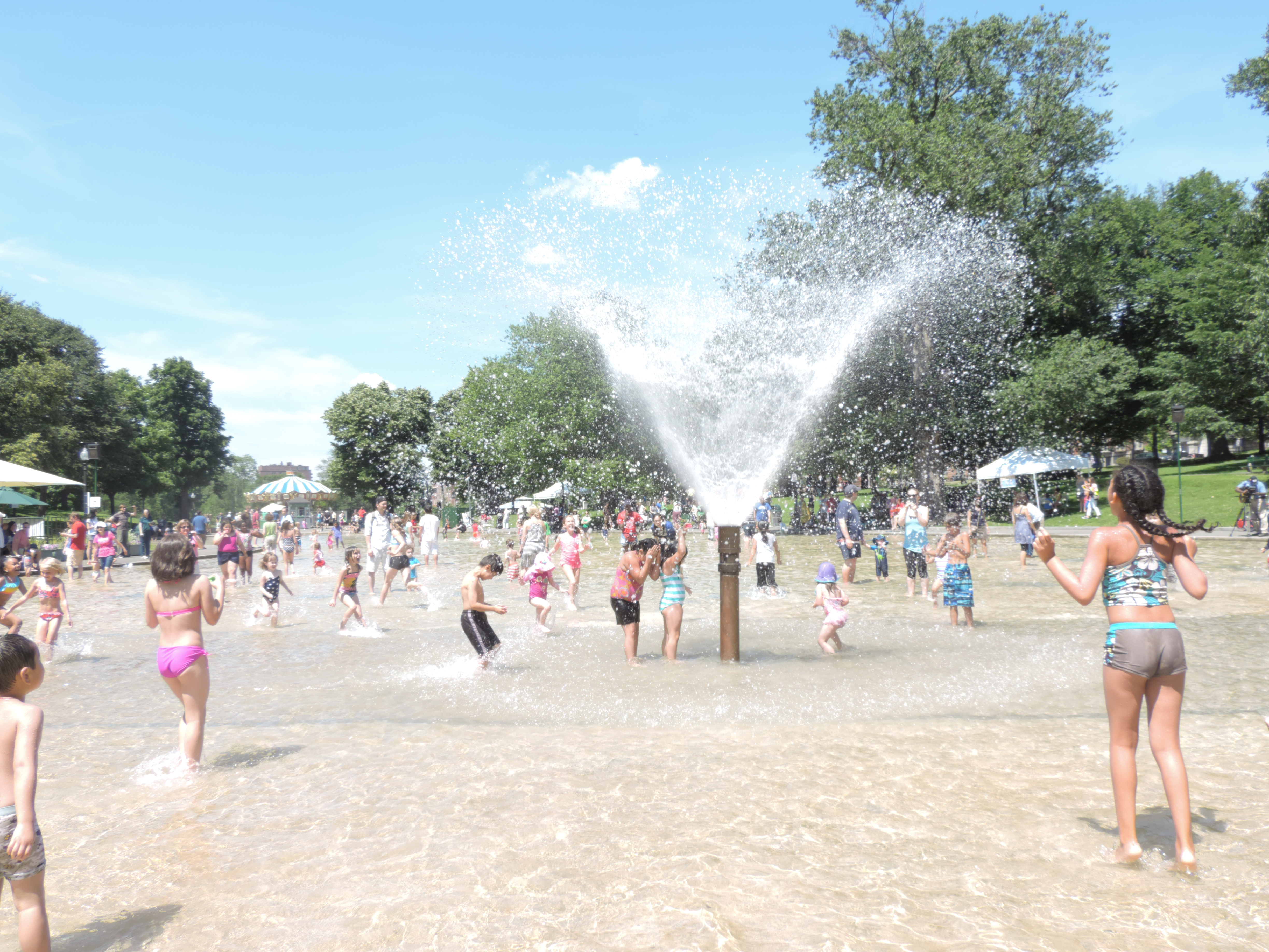 Children celebrating the annual opening of the Frog Pond Spray Pool.